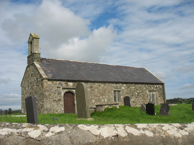 St Twrog - a simple, country church, near to Llynfaes, Isle of Anglesey/Sir Ynys Mon, Great Britain. SH4077 : Eglwys St Twrog, Bodwrog